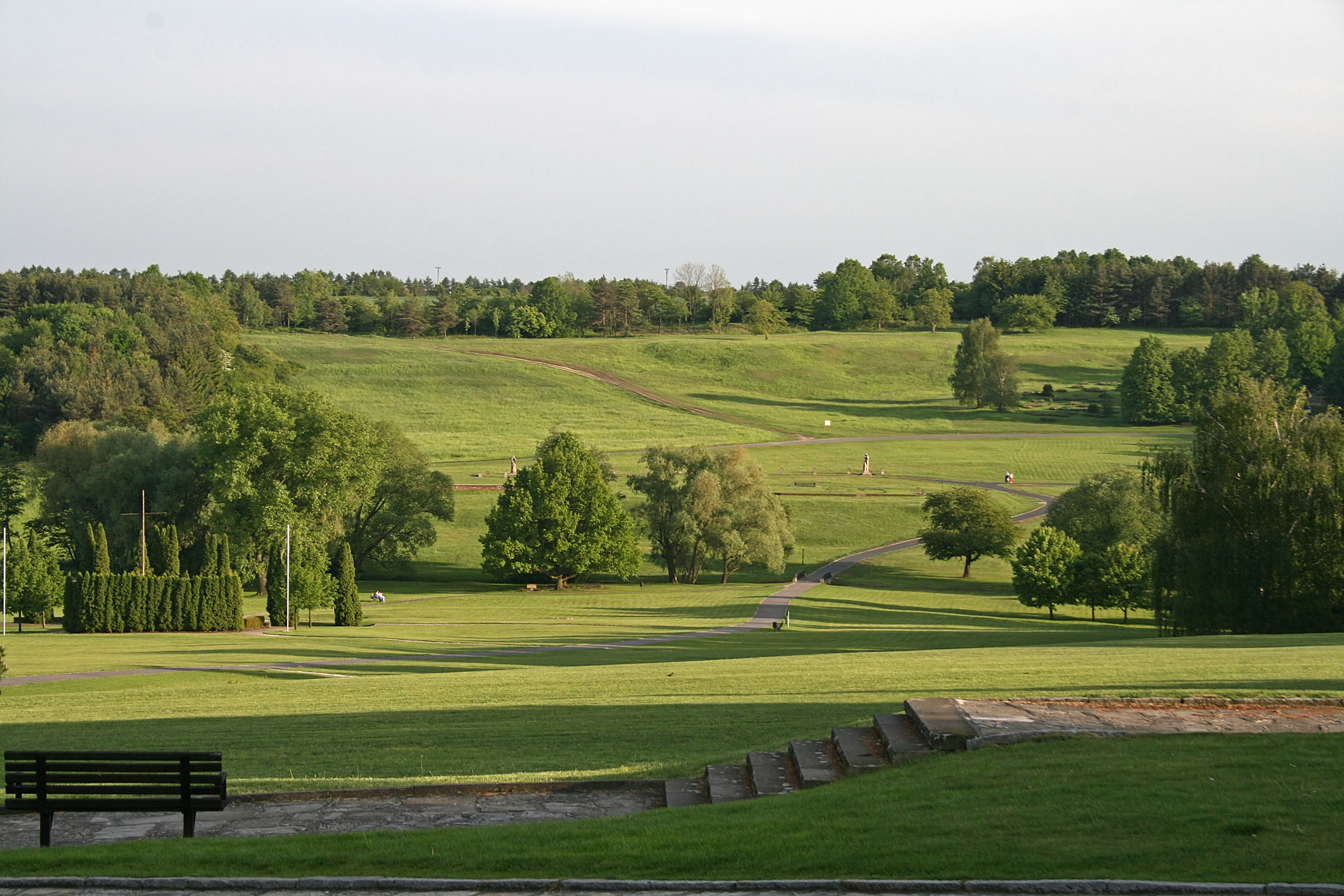 memorial place Lidice / Czech Republic